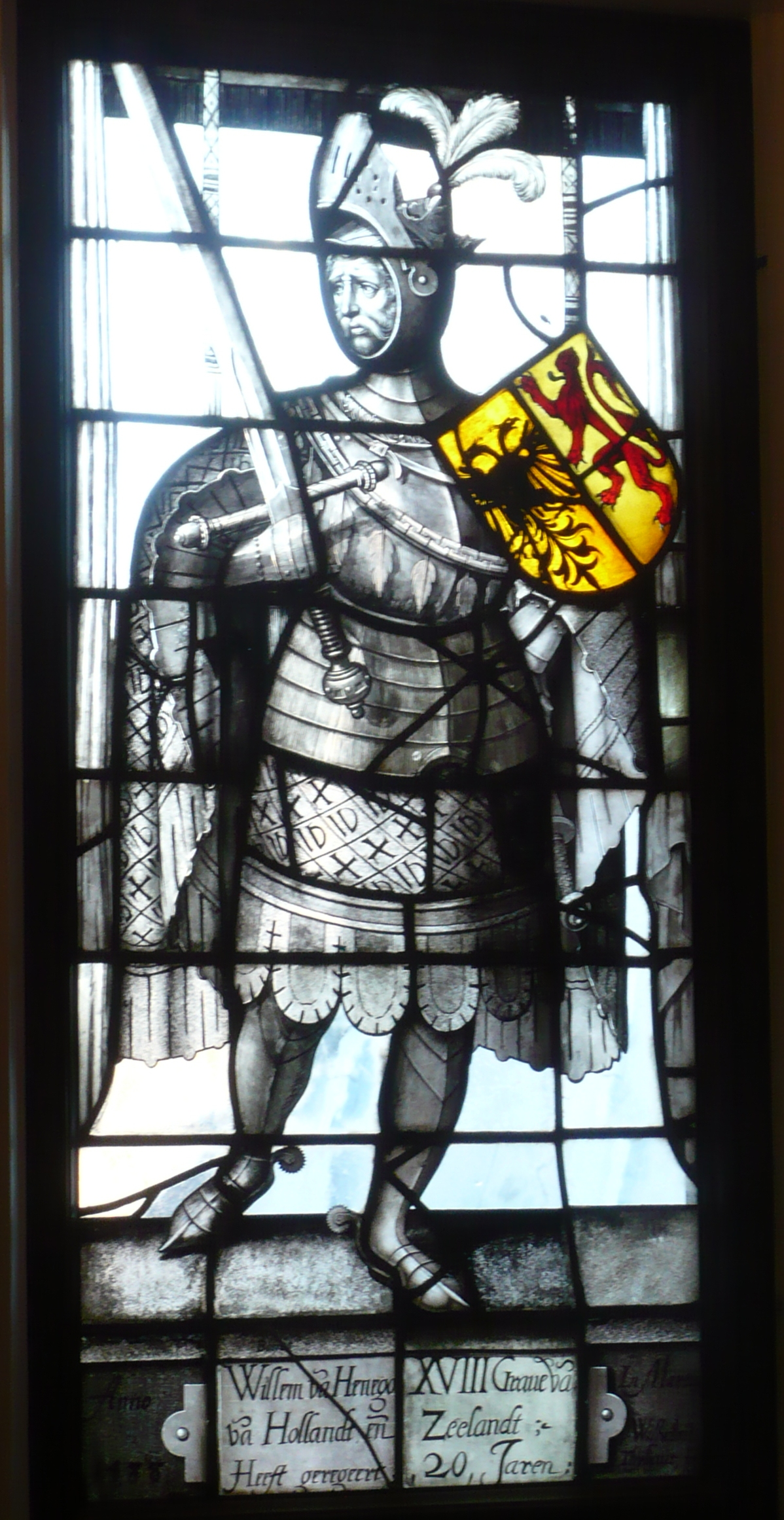 The stained-glass window of William II (1227-1256), Count of Holland in the Lakenhal in Leiden.